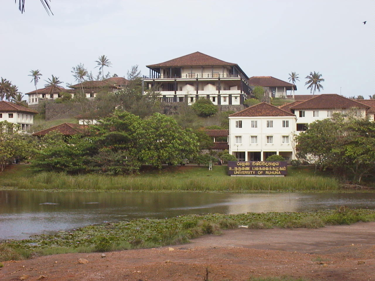 (chinthaka kumarsiri)